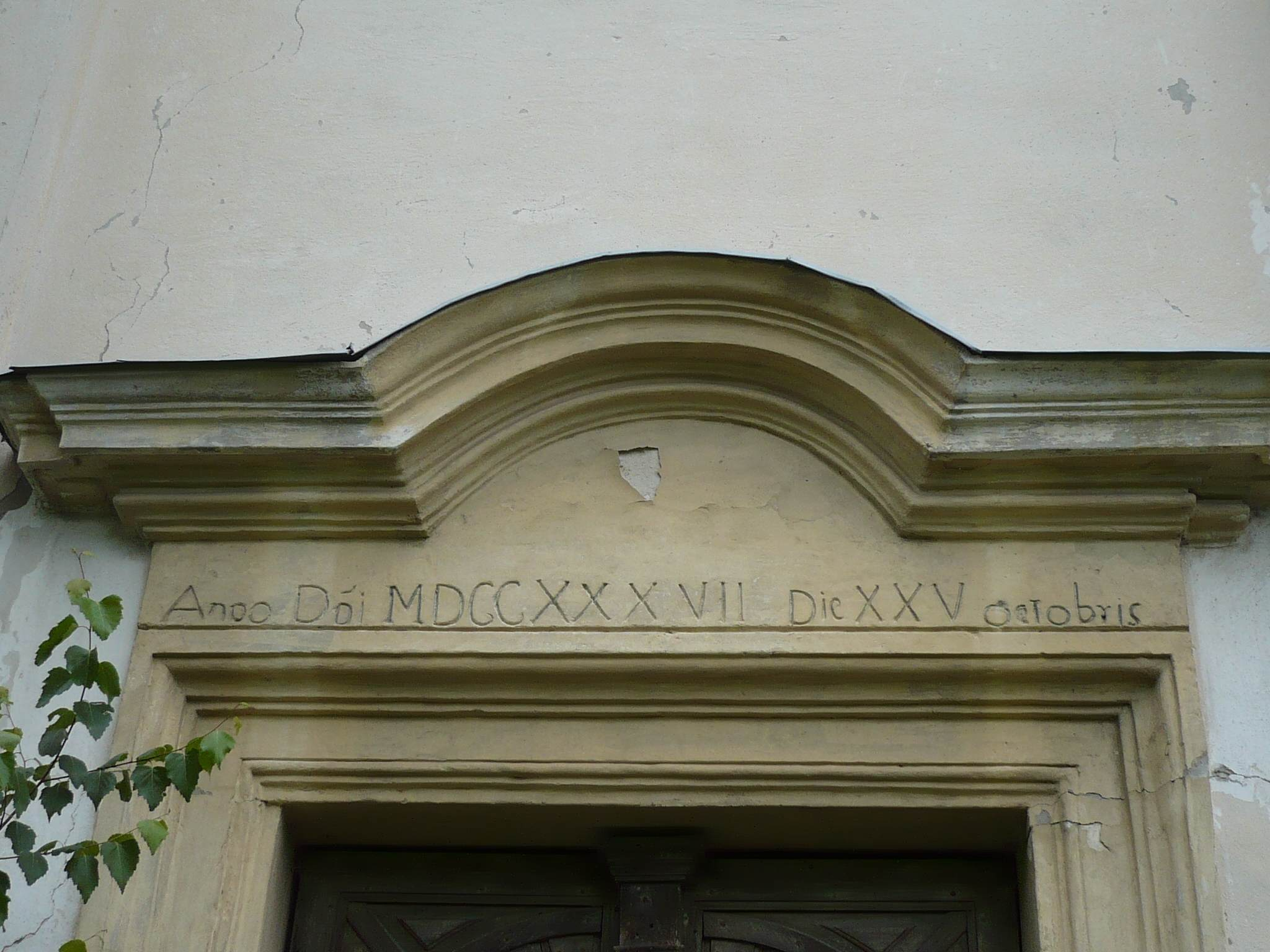 Church of the Assumption of Mary in Bilyi Kamin